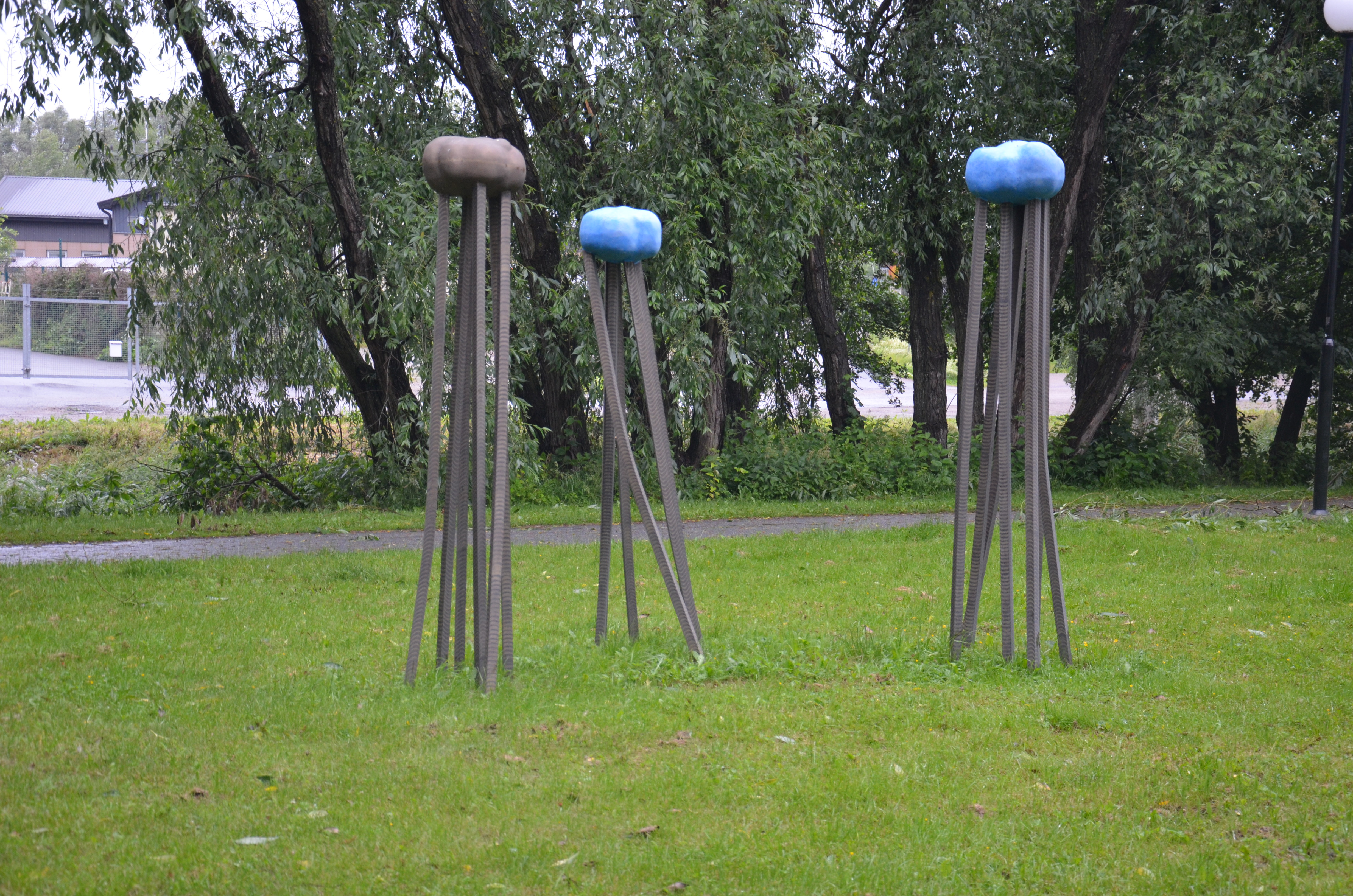 Johan Ledung' s Lilla regnet, Lilla Å-promenaden, Örebro, Sweden